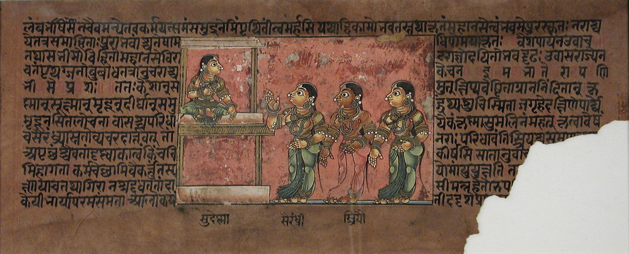 AsiaDraupadi’s Meeting with Queen Sudeshna, Folio from a Mahabharata ([War of the] Great Bharatas)